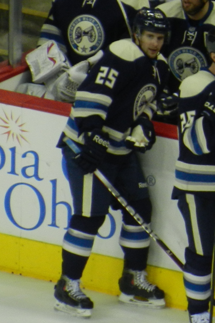 Ryan Russell playing with the Columbus Blue Jackets in 2012